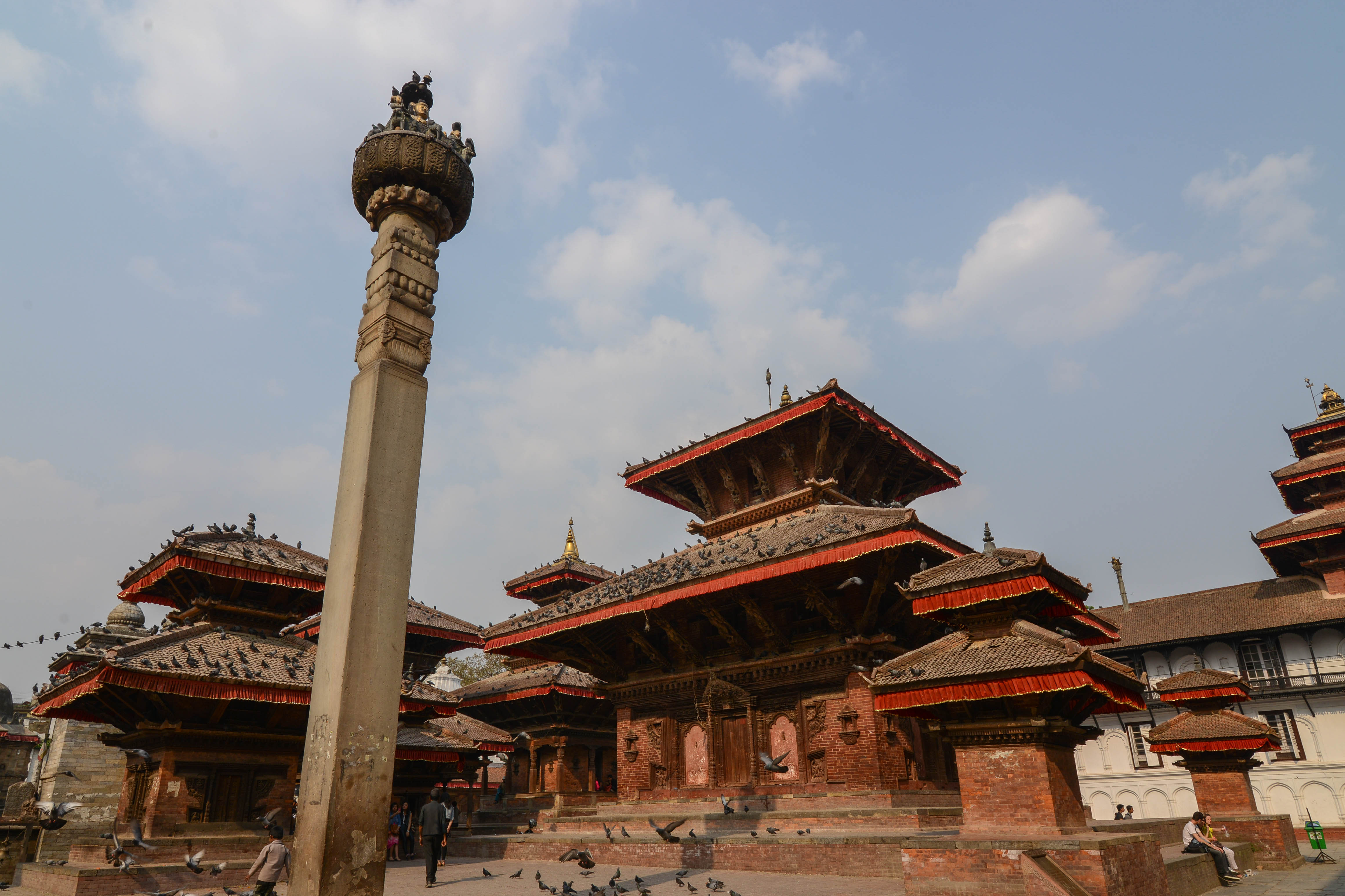 Little is known about this mysterious temple. Even the god to which it is dedicated is controversial – the lingam inside indicates that it is a Shiva temple but the Garuda image half-buried on the southern side indicates that it is dedicated to Vishnu. To compound the puzzle, however, the temple’s name clearly indicates it is dedicated to Indra! The temple’s unadorned design and plain roof struts, together with the lack of an identifying torana (pediment above the temple doors), offer no further clues